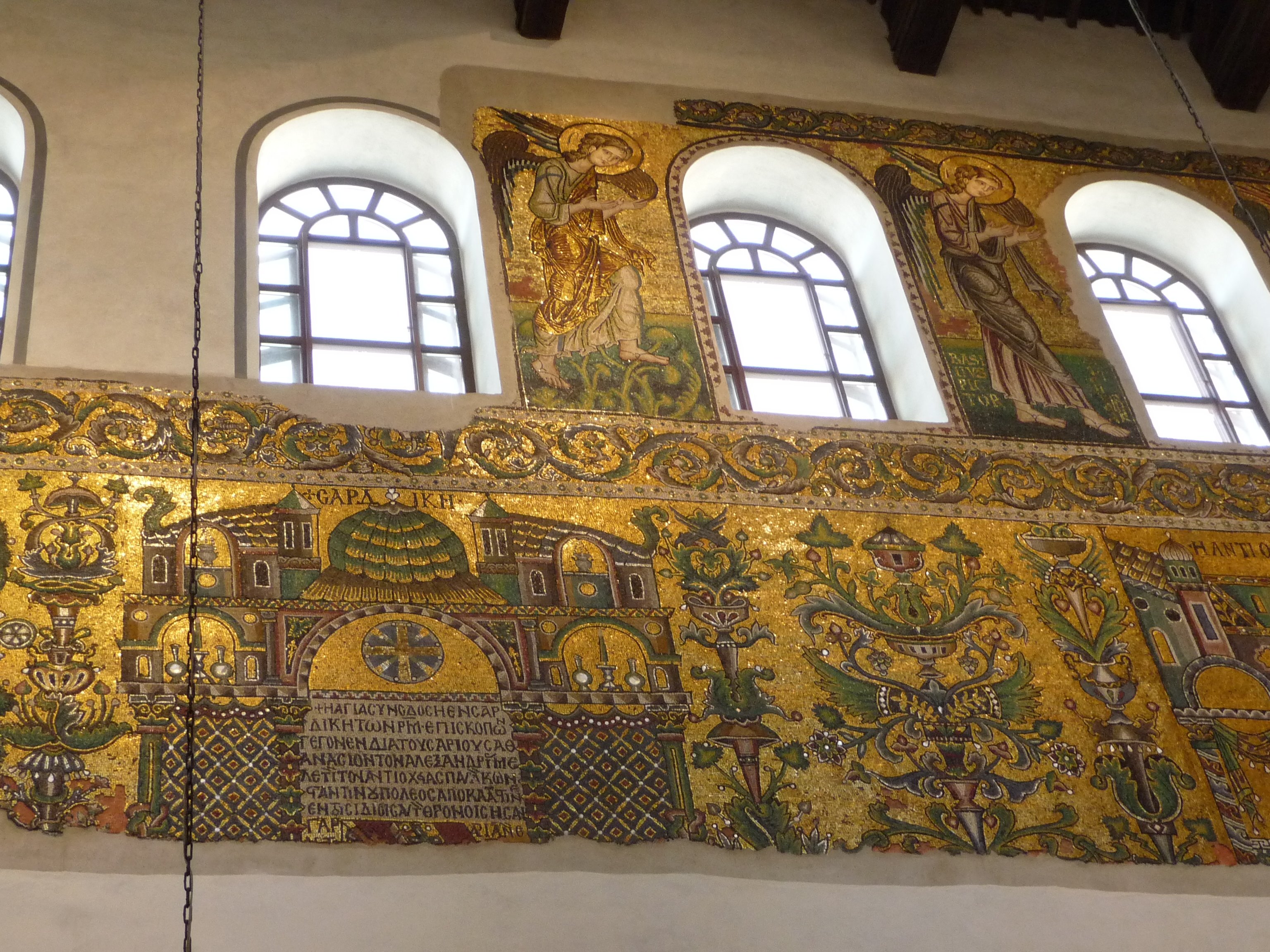 The Church of the Nativity, while remaining basically unchanged since the Justinian reconstruction, has seen numerous repairs and additions, especially from the Crusader period, such as two bell towers (now gone), wall mosaics and paintings (partially preserved).